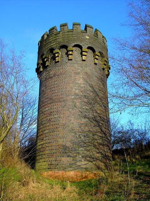 Chipping Sodbury Tunnel ventilation shaft near Badminton